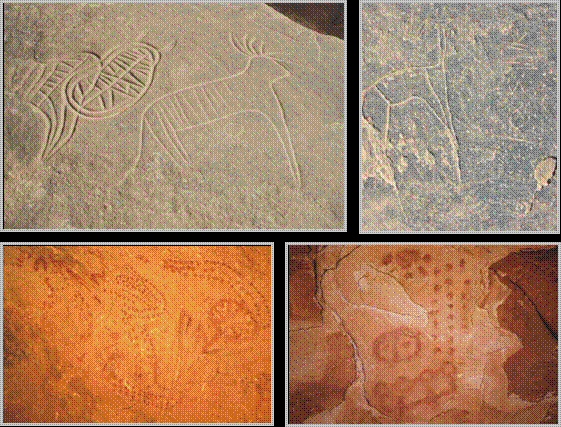 Prehistoric rock engraving from Figuig, Morocco